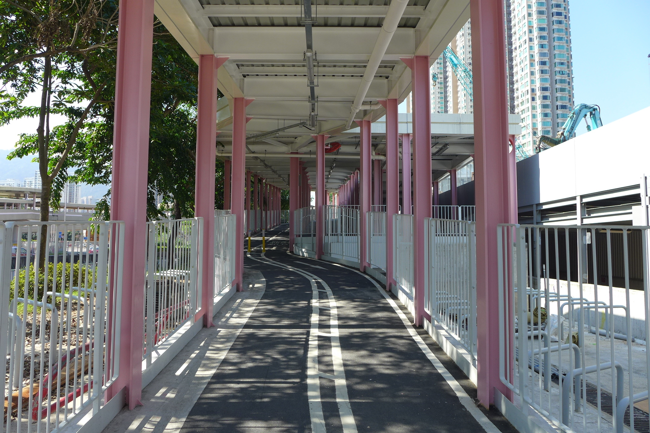 Temp bridge in Che Kung Miu Road